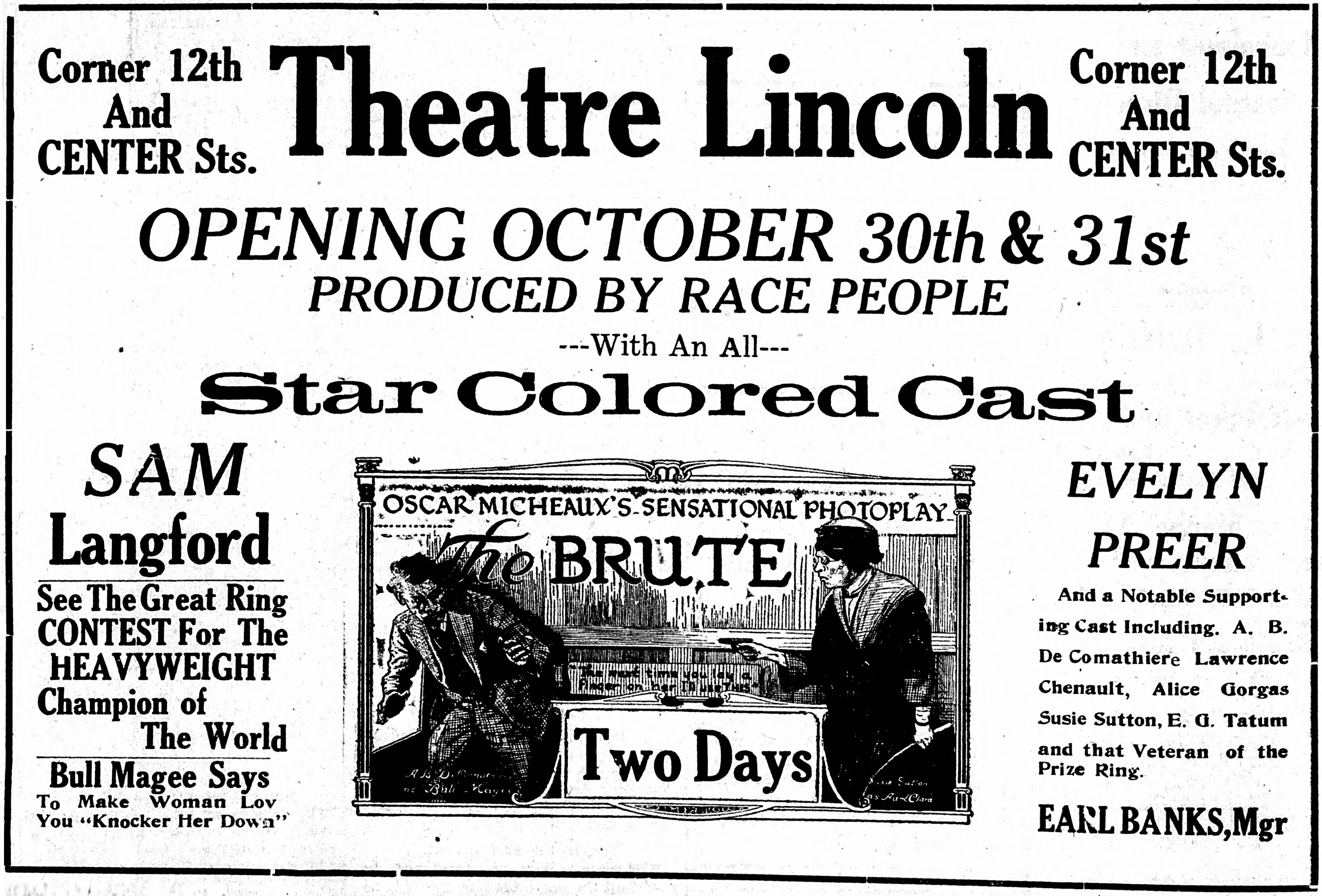 The Brute is a 1920 'race film' directed, written, produced and distributed by Oscar Micheaux. This is a newspaper advert for the film.